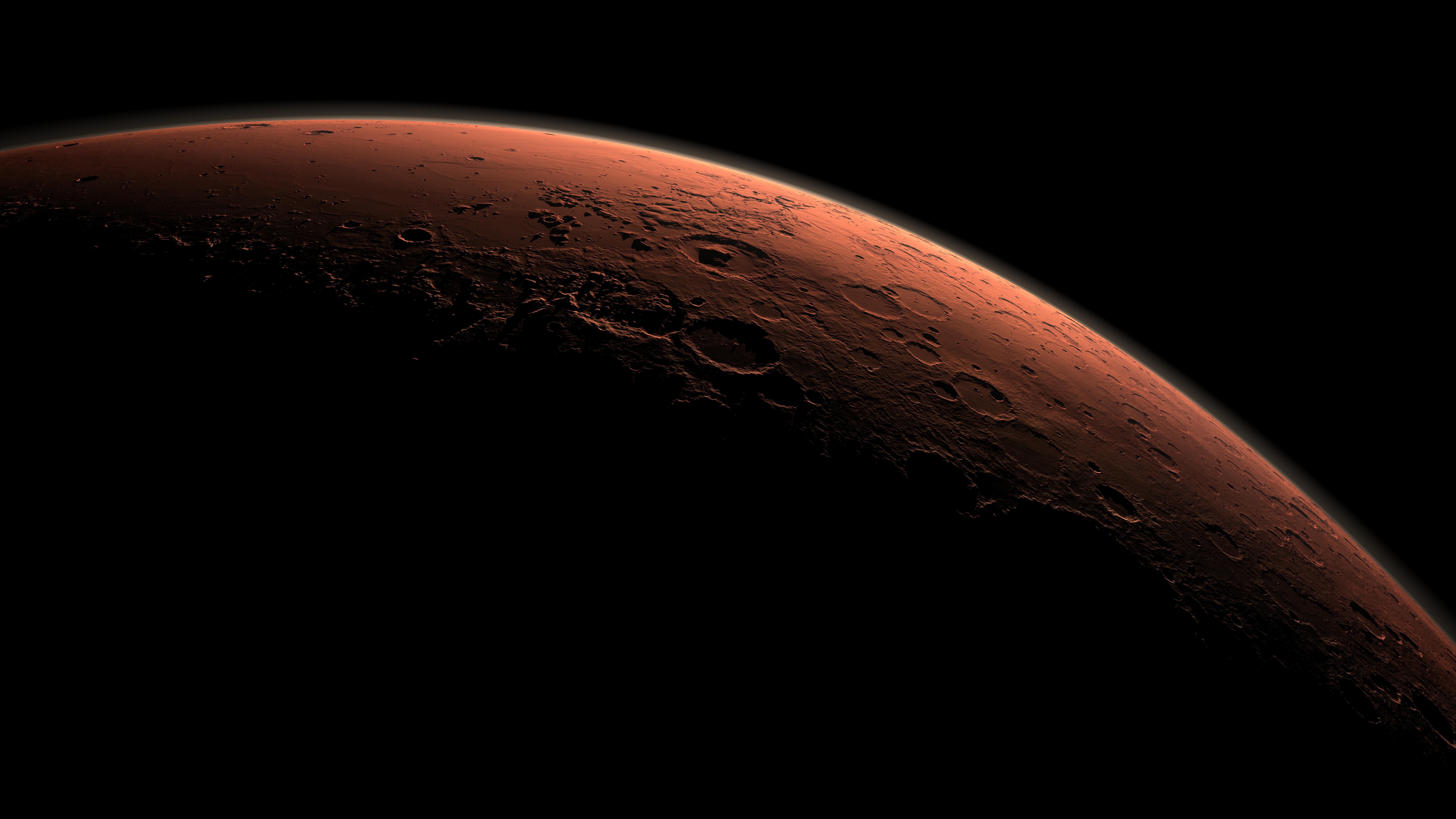 Computer generated image from MOLA data, showing daybreak on Gale crater of Mars, as it would appear from space. Gale crater is the crater with a mound inside it near the center of the image and will be the landing site of the Mars Science Laboratory in August 2012.